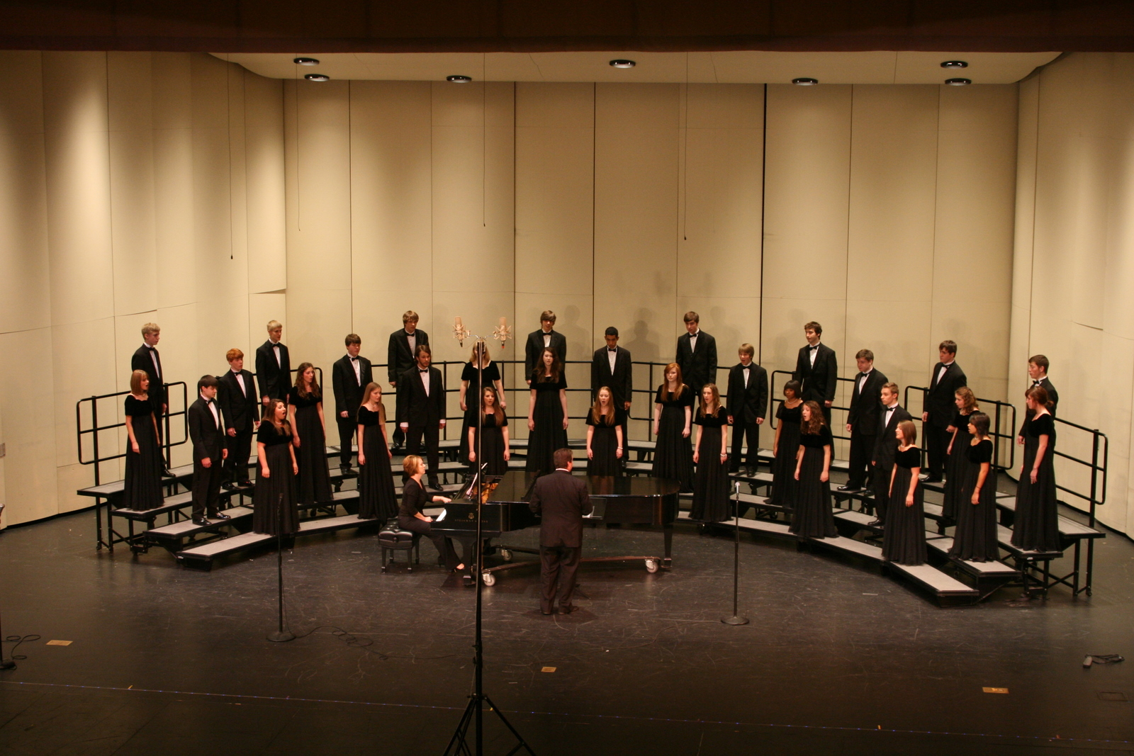 The Bentonville High School Chamber Choir